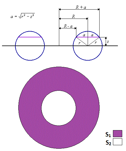 Cross-sectional and longitudinal of torus.